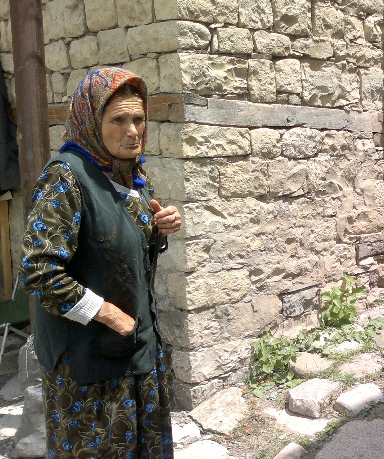 Old woman in Lahij, Azerbaijan